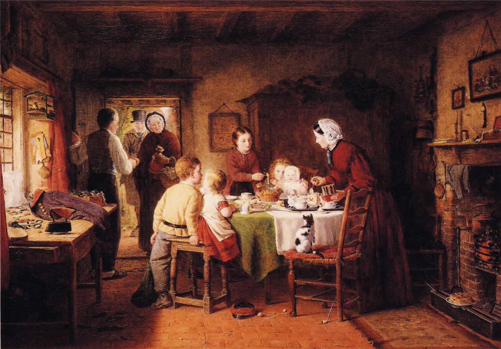 Frederick Daniel Hardy - The First Birthday Party Oil painting on canvas